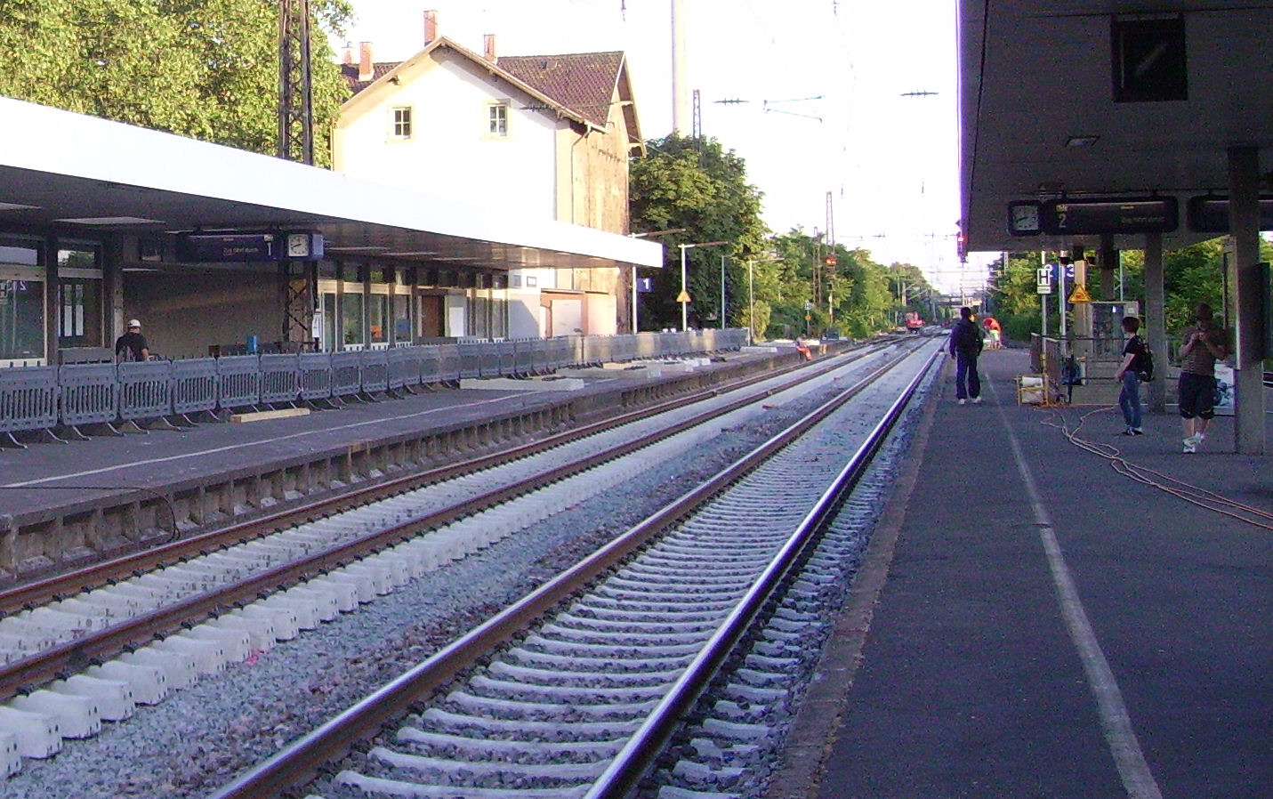 Frankenthal, Germany